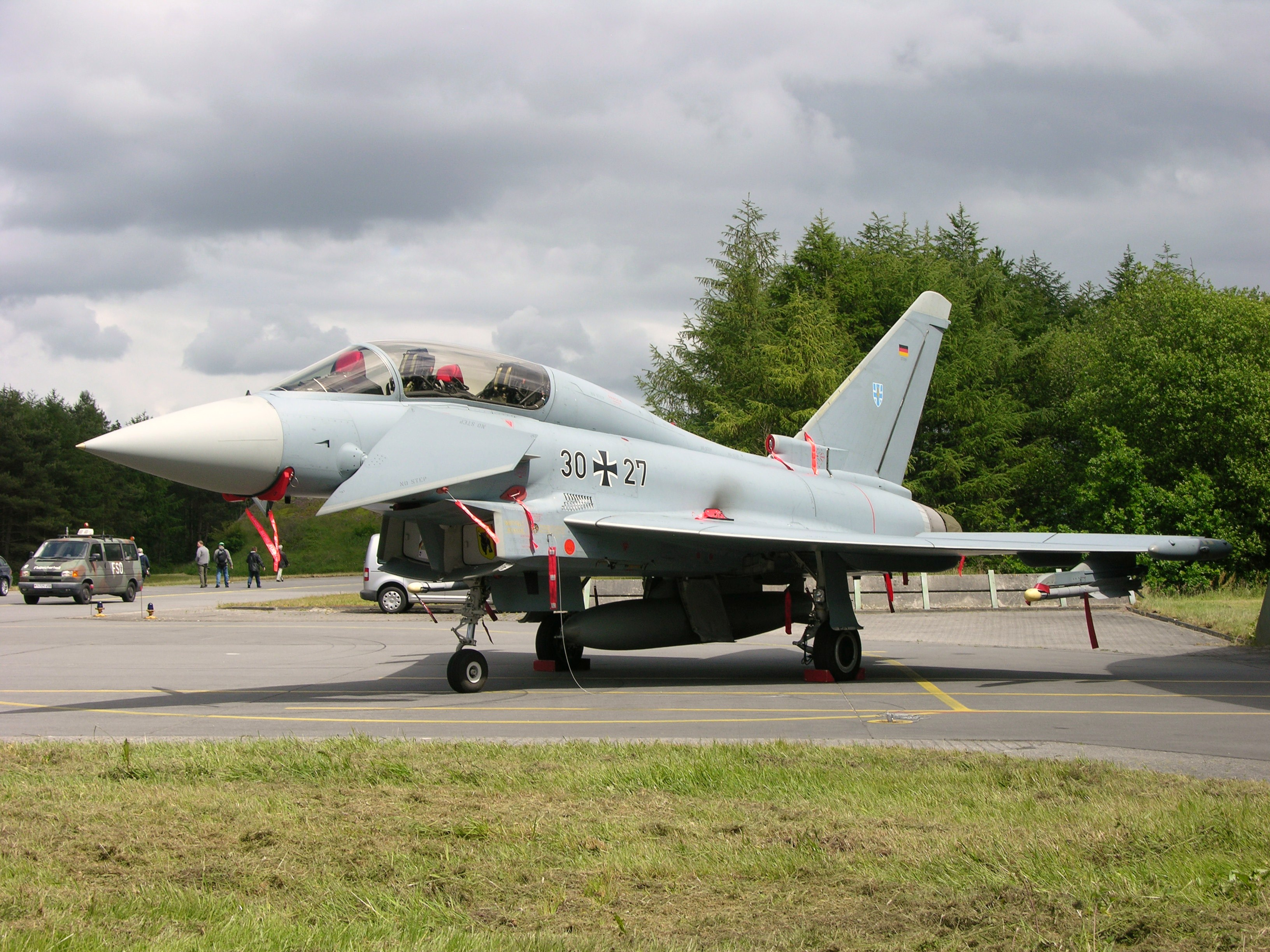 30+27 a Eurofighter EF2000T JG-73 Laage